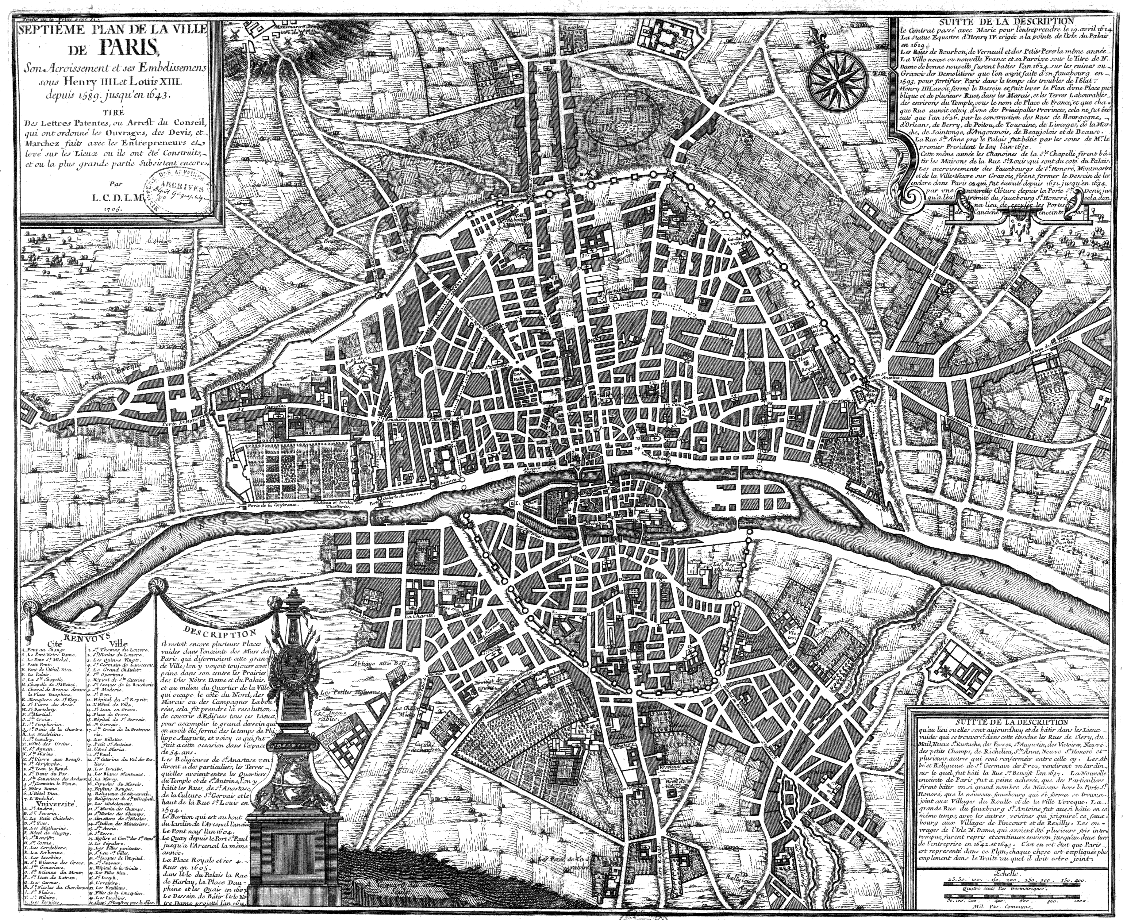 Plan of Paris in 1643, the seventh of eight chronological maps of Paris from Traité de la police